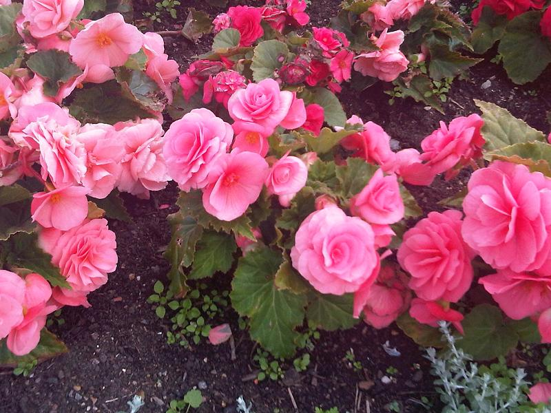 Tuberous begonias (Begonia × tuberhybrida) Voss flowers in Kew Gardens, England.